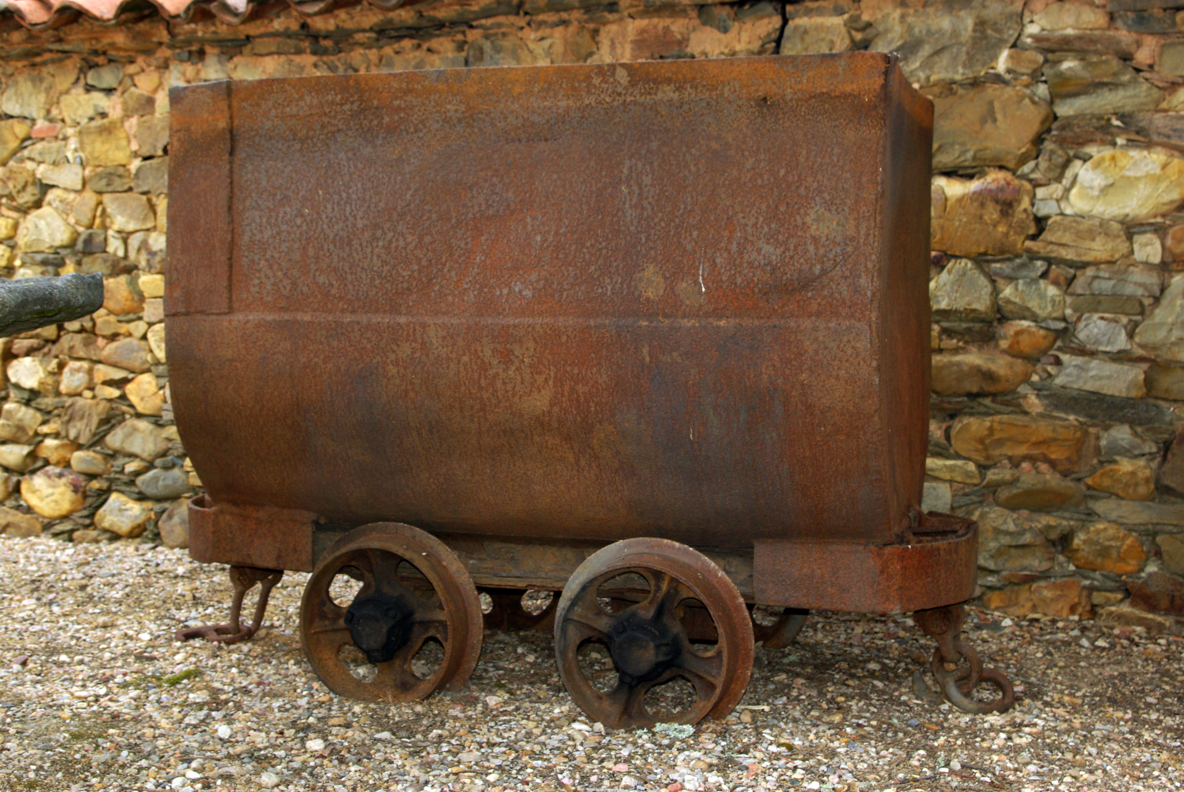 Coal mining wagon Valdesamario (León, Spain).